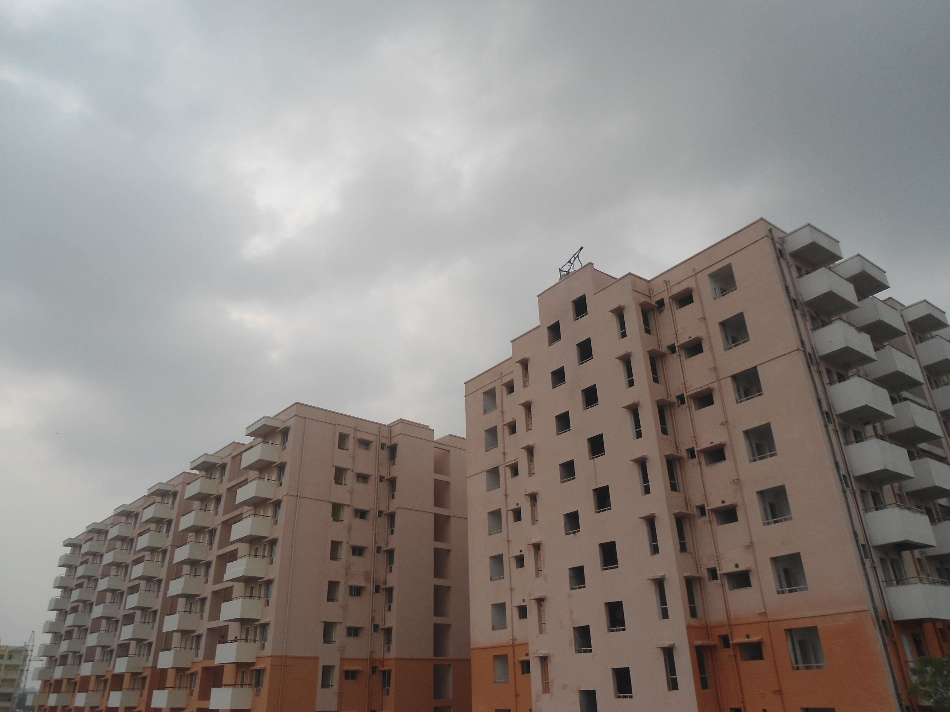 New Residential Complex at Hydershakote in Rajendranagar mandal, Ranga Reddy district